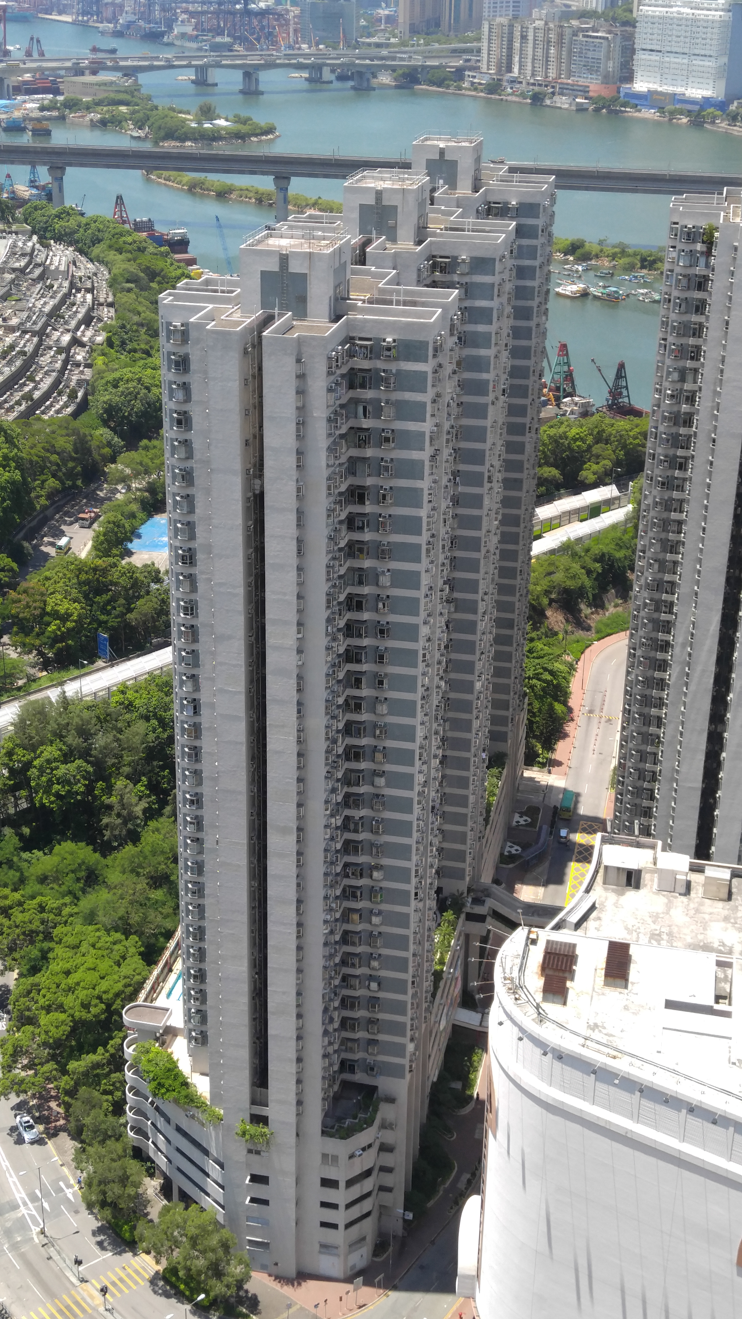 Block 20-22 are the latest buildings in Riviera Gardens.